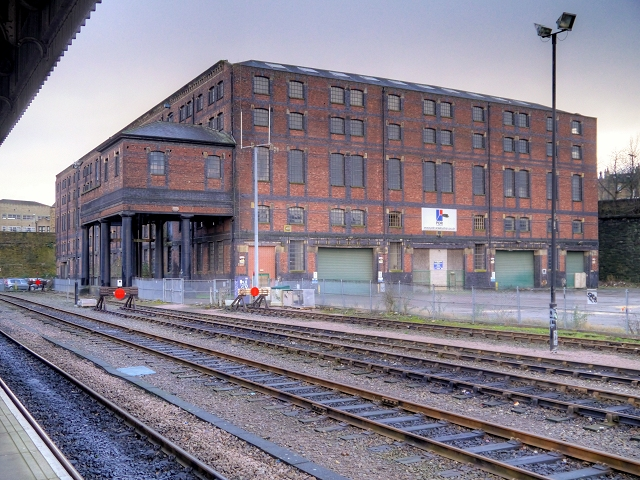 Large Brick Warehouse at Huddersfield Station